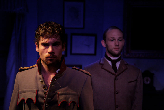 Before The Duel